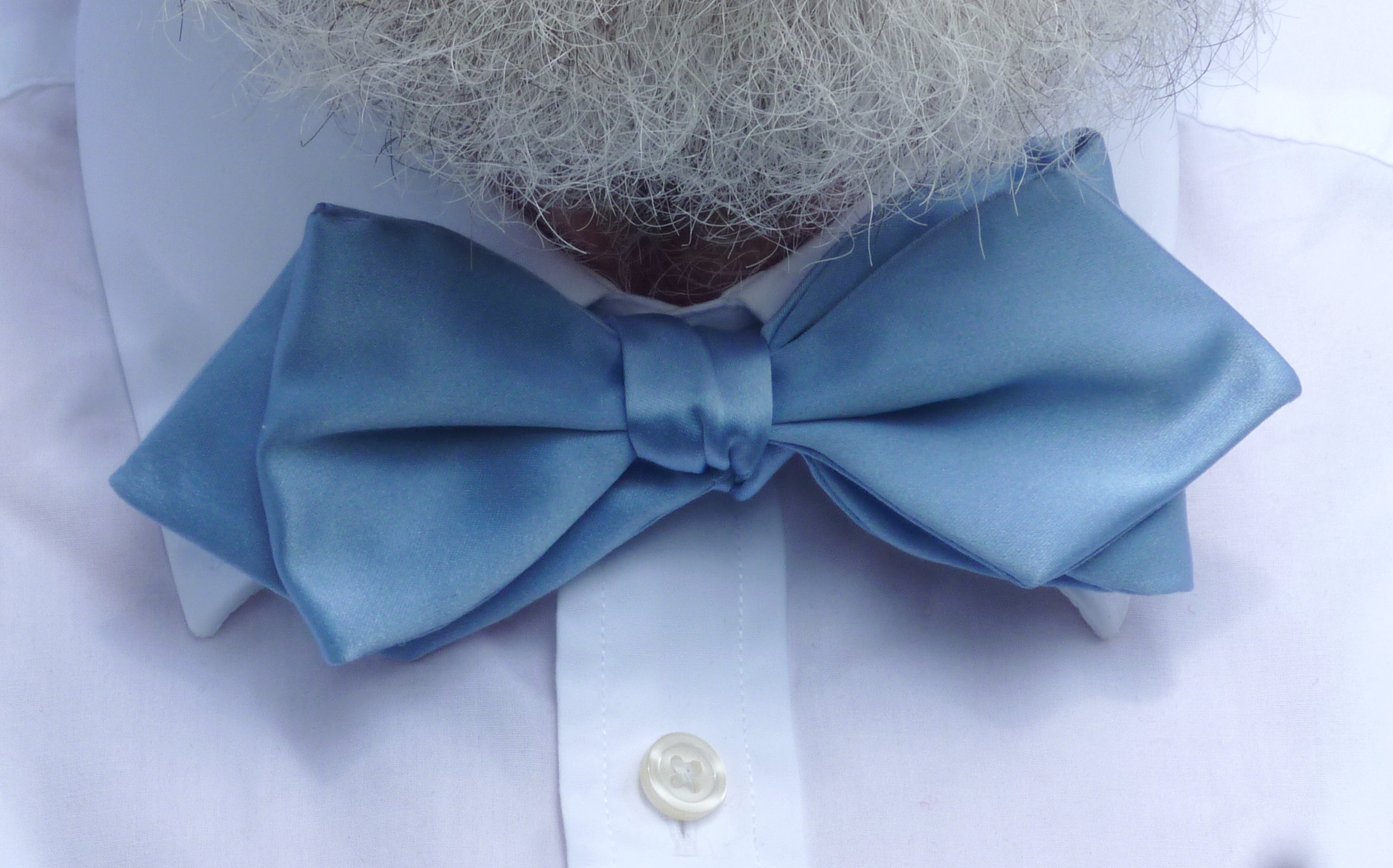 Bowtie, type Diamond Point, silk, self tied